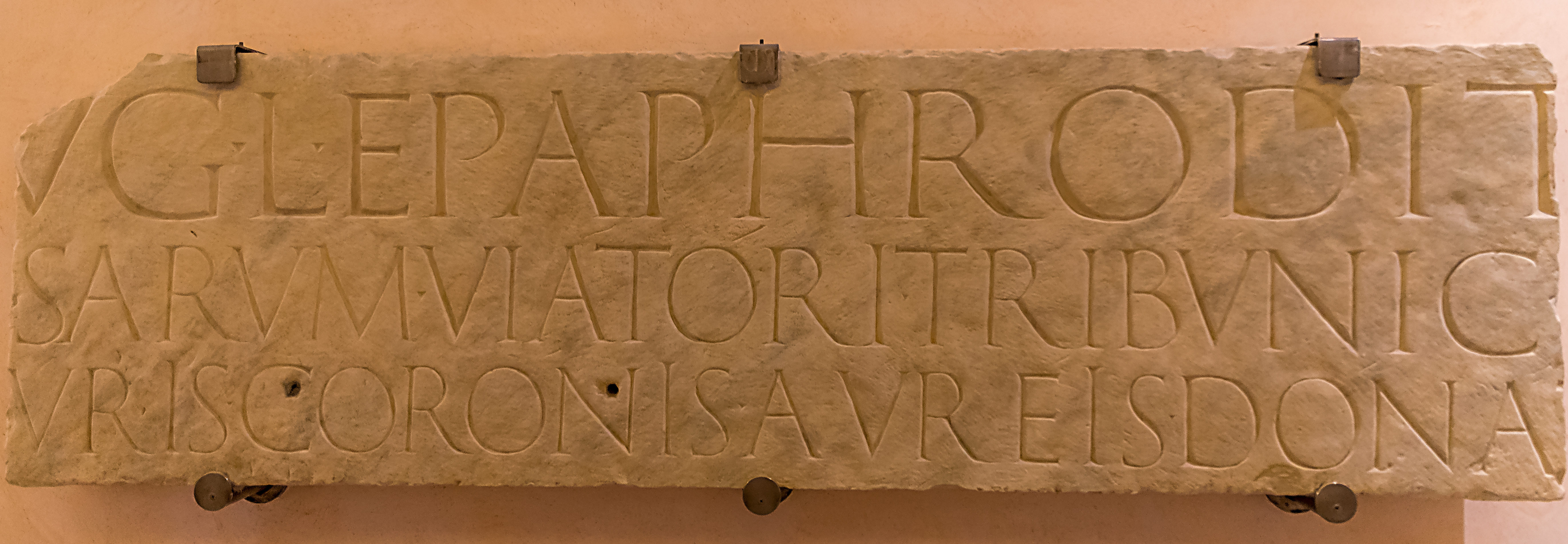 An impressive tomb for the freedman Epaphroditos